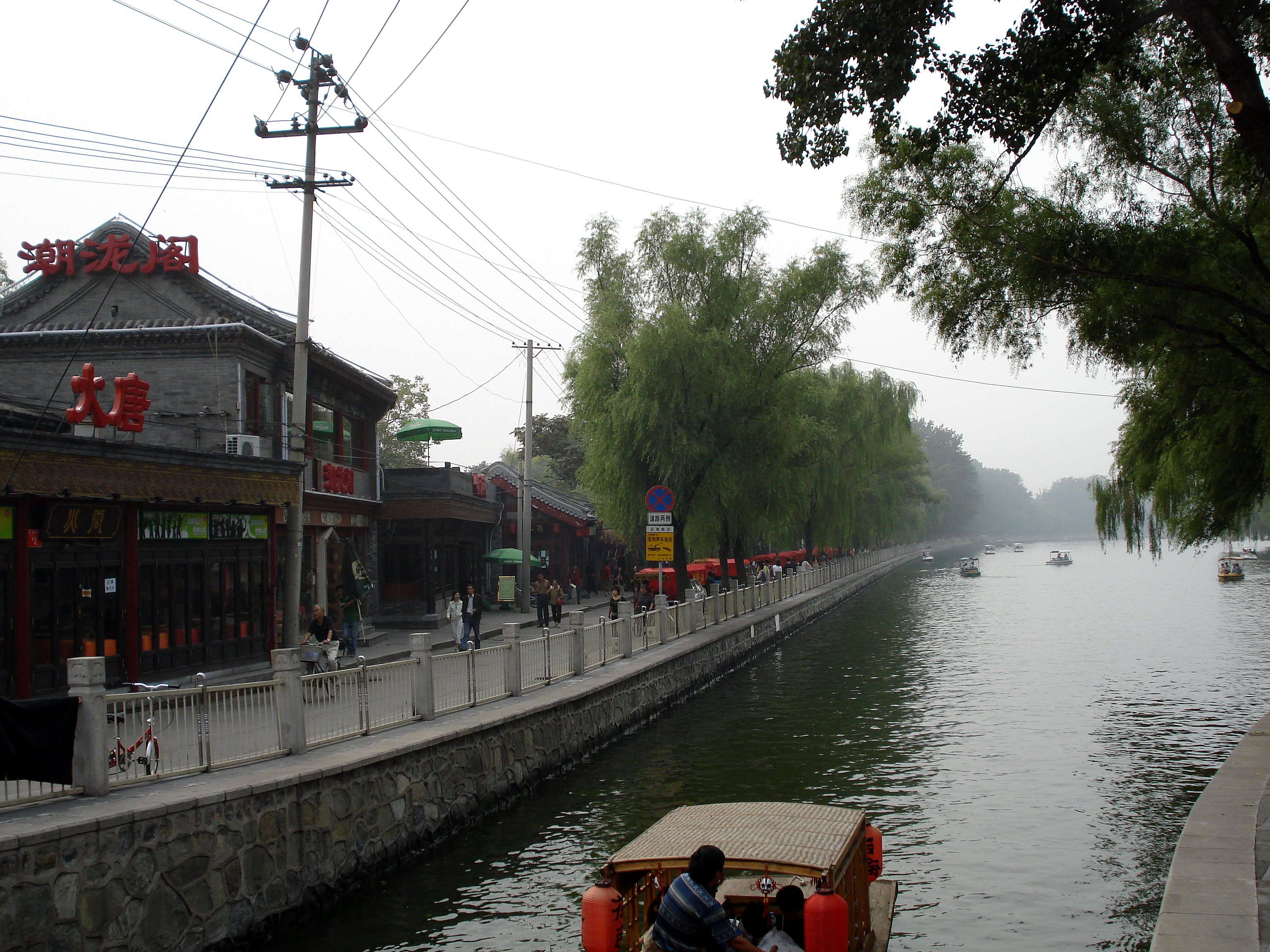 Beijing: hutong and Grand Canal of China